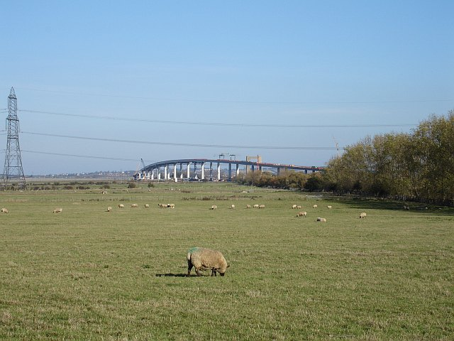 Meadow near Sheppey Bridge construction site 2